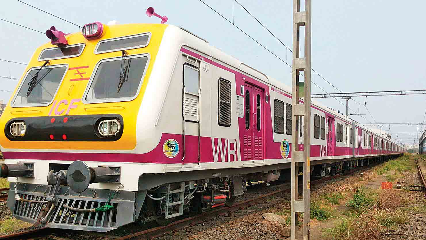 A Medha EMU photo taken near Vasai Road.